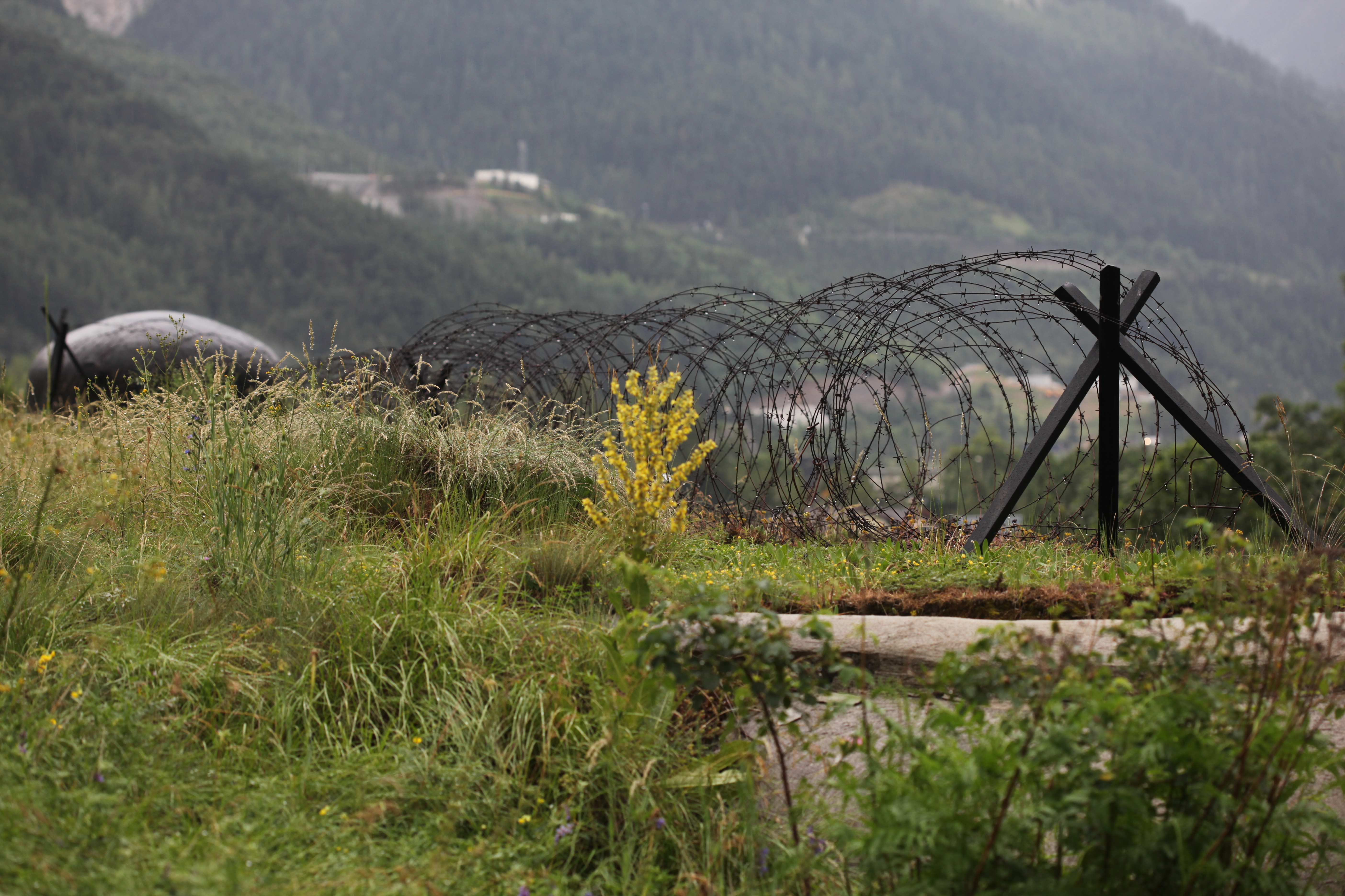 Details of the Ouvrage Saint-Gobain.